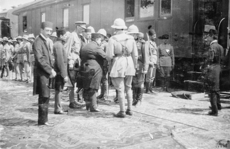 Brigadier General Digby Inglis Shuttleworth with the Shah of Persia, Ahmad Shāh Qājār, in Baku, August 1919